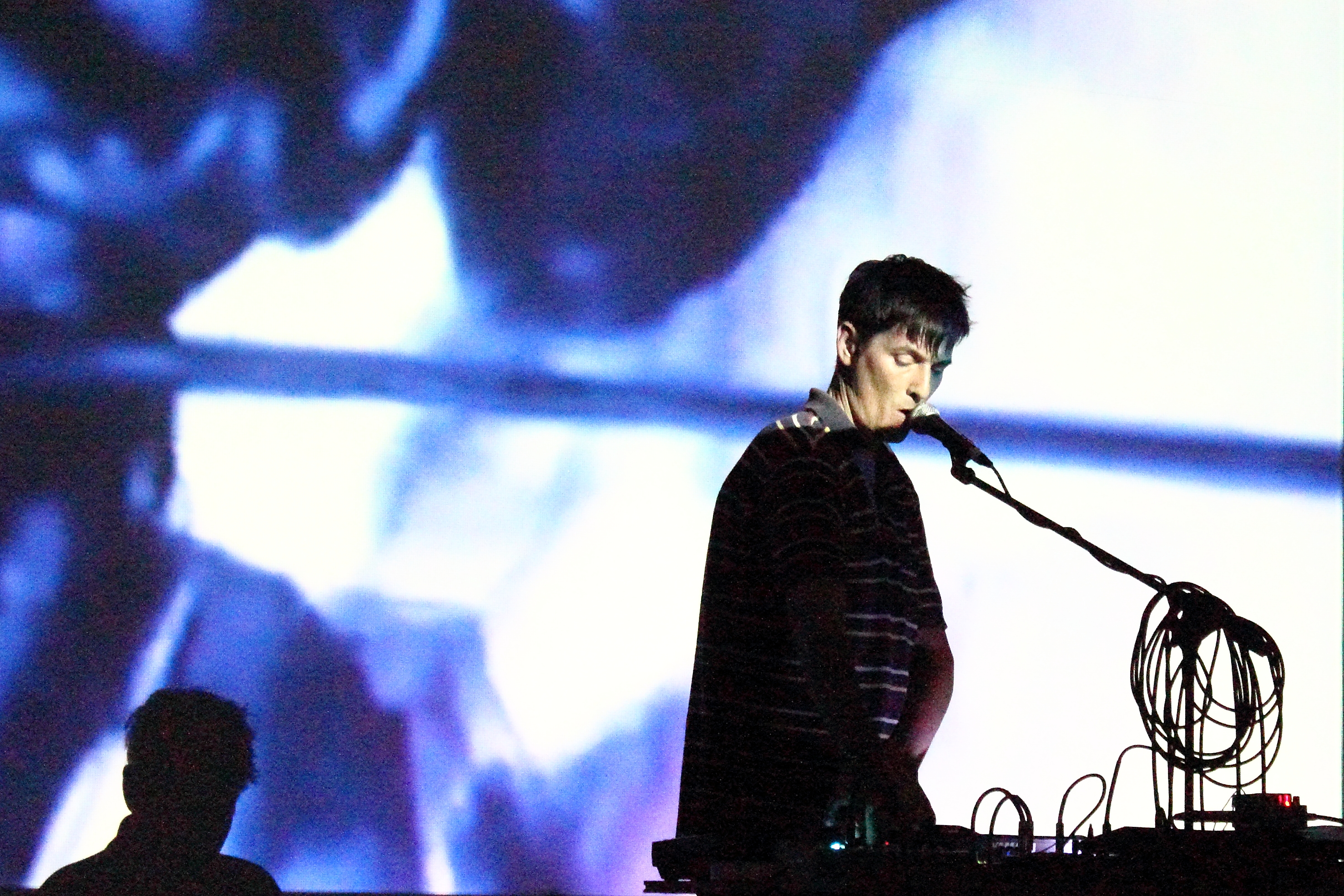 Sonic Boom in 2013 Sonic Boom au festival Less Playboy is More Cowboy #4 au Confort Moderne - Poitiers, juin 2013. Flickr Tags: Confort Moderne Poitiers Festival less playboy is more cowboy Musique Music Rock Scène Stage Live Concert Sonic Boom Peter Kember Electro Electronic Music. from Flickr album "Le Confort Moderne" by Xi WEG from Poitiers, France